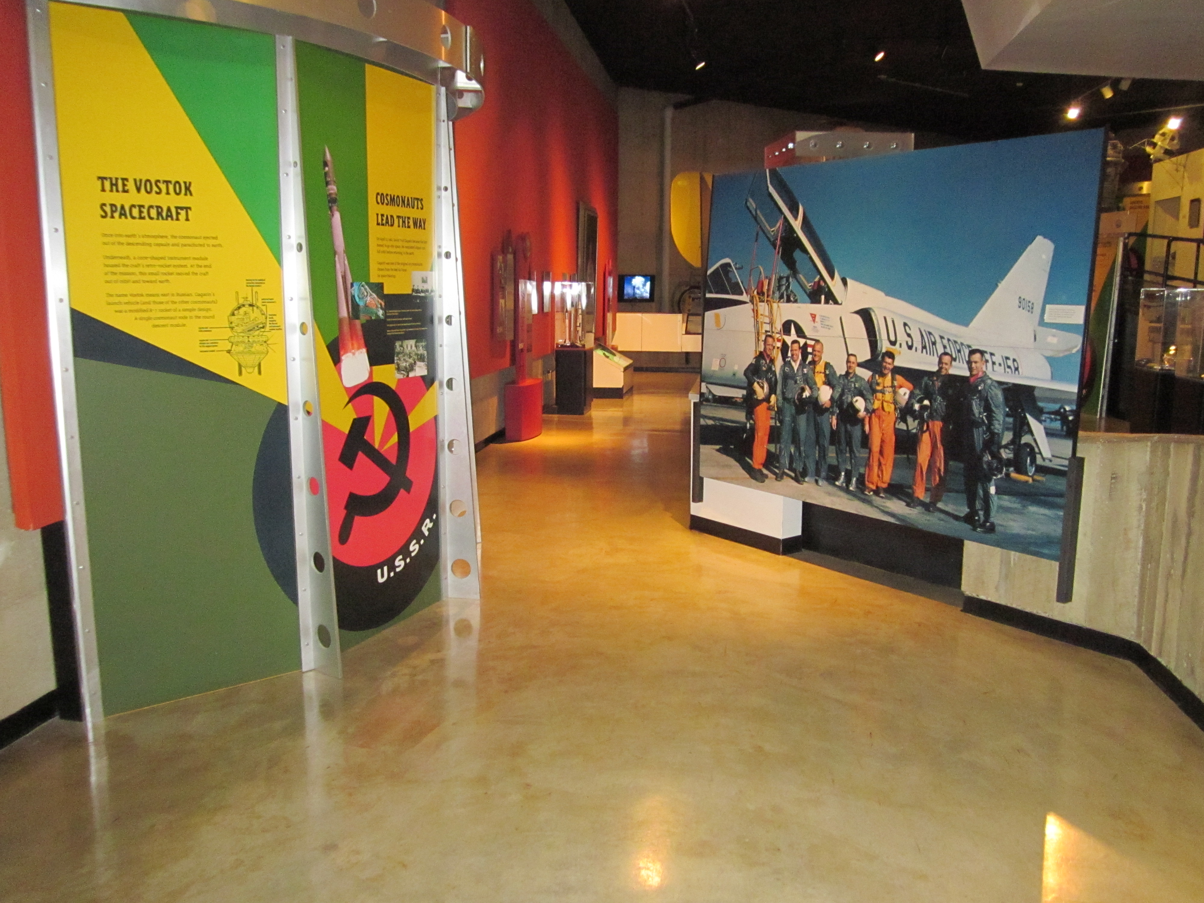 Exhibit Hall Showing Soviet Space Display and First American Astronauts